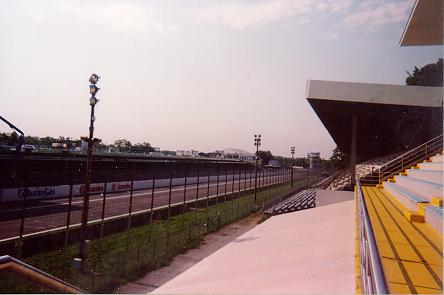 The race track in Monza. Photo taken by me in summer 2003. Use freely.